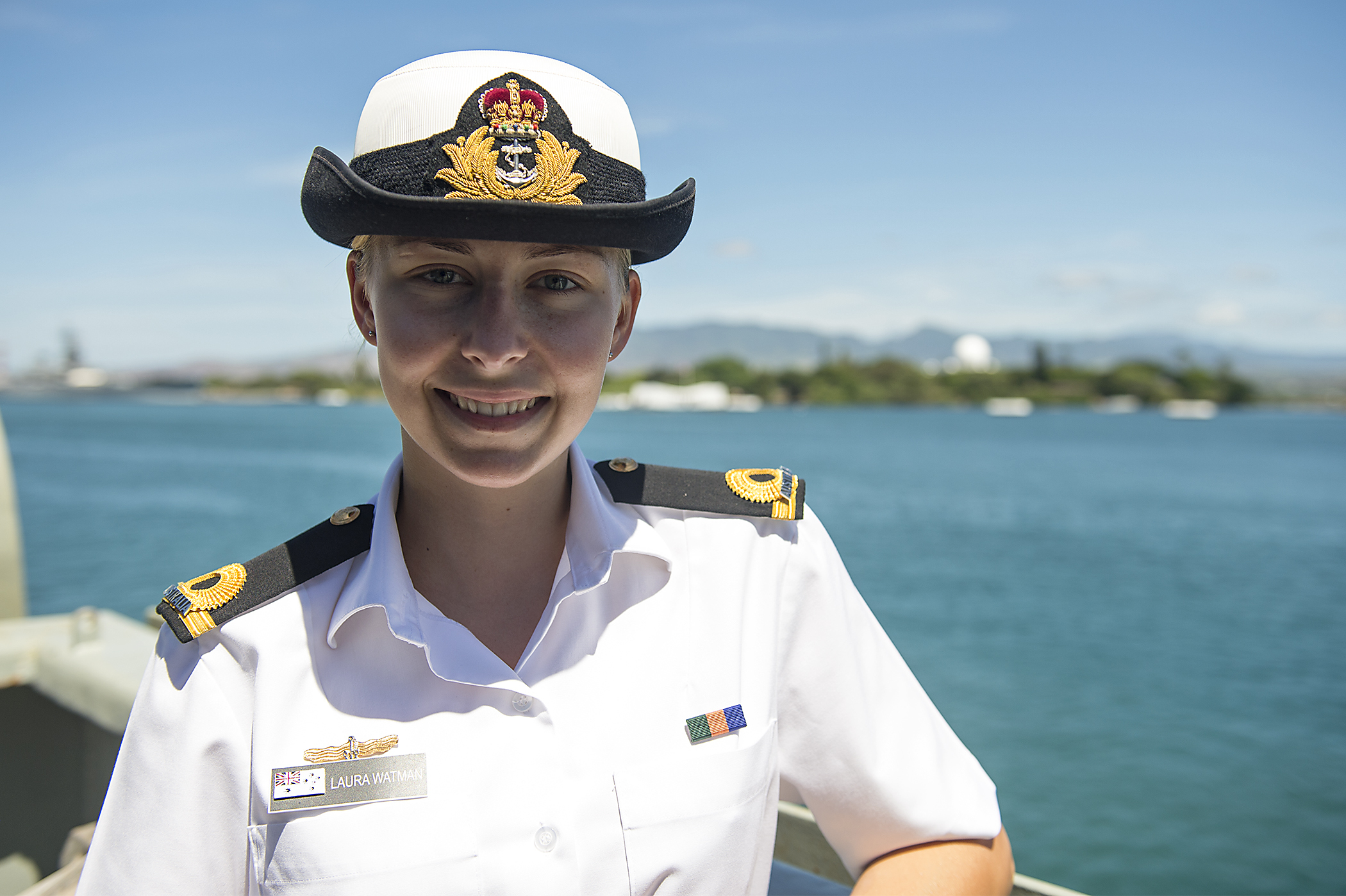 Laura Watman, an officer stationed aboard the Royal Australian Navy ship HMAS Success (OR 304), poses for a photo during Rim of the Pacific (RIMPAC) Exercise 2014.